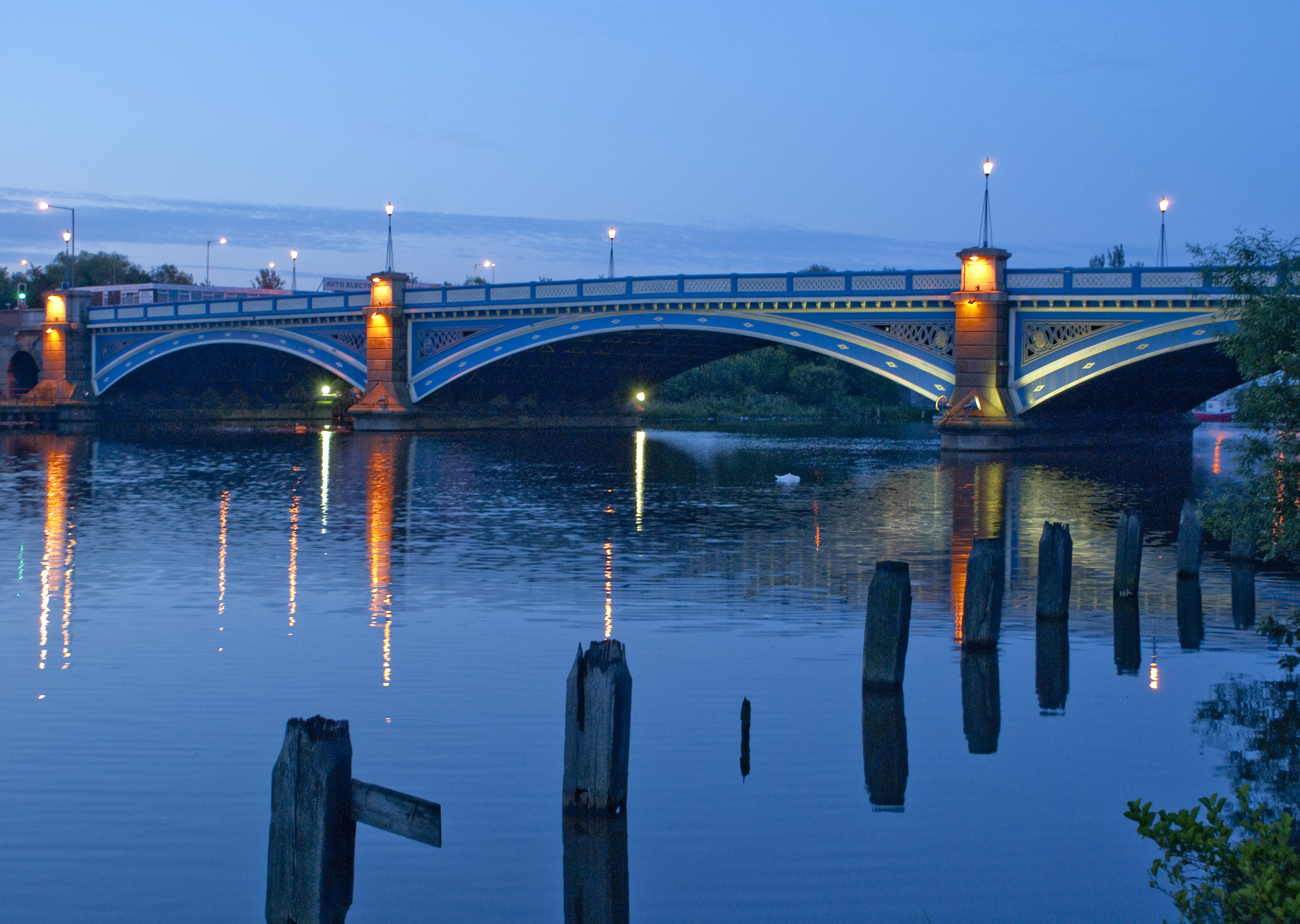 Victoria Bridge spanning River Tees in Stockton-on-Tees